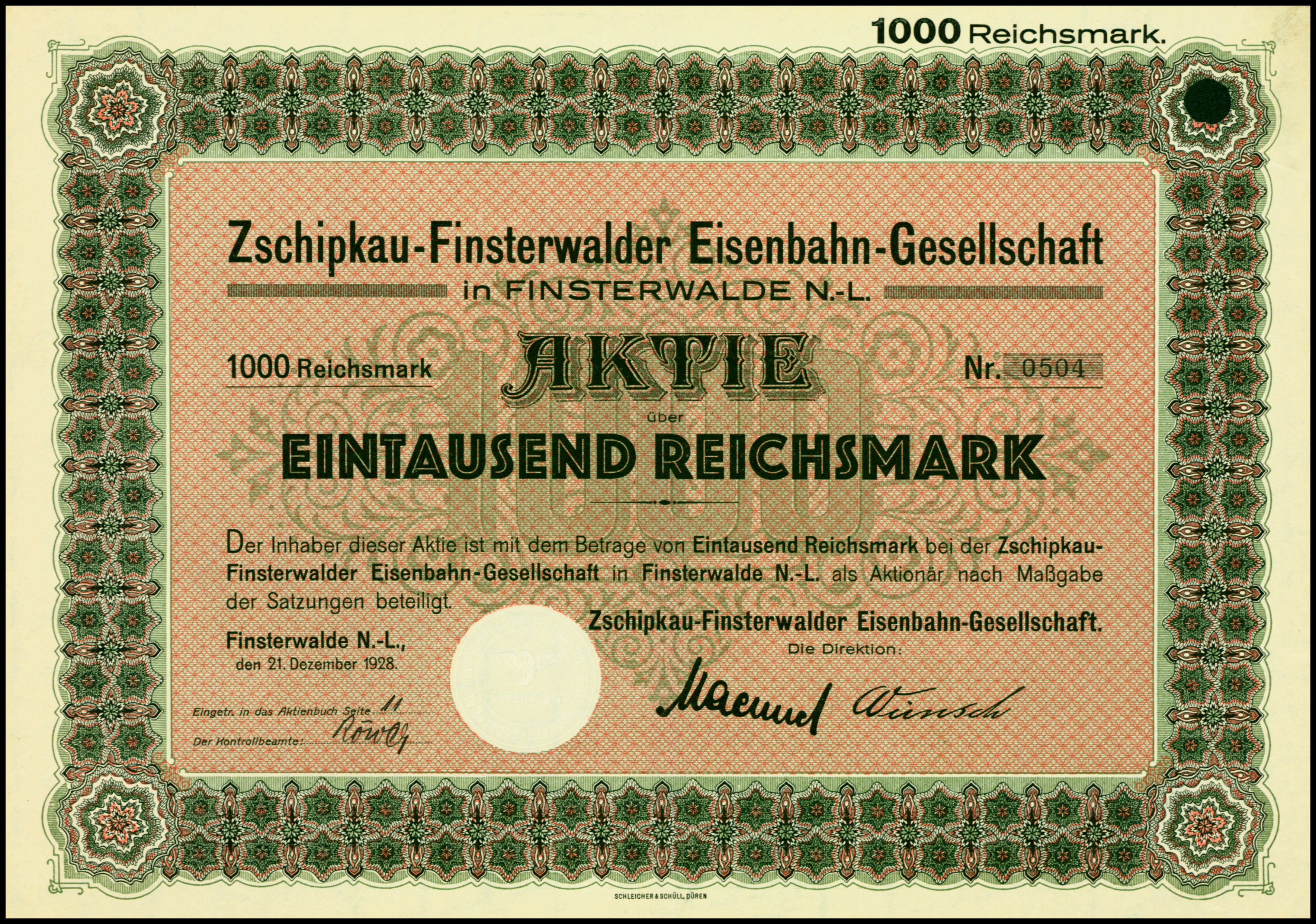 Share of the Zschipkau-Finsterwalder Eisenbahn-Gesellschaft, issued 21. December 1928